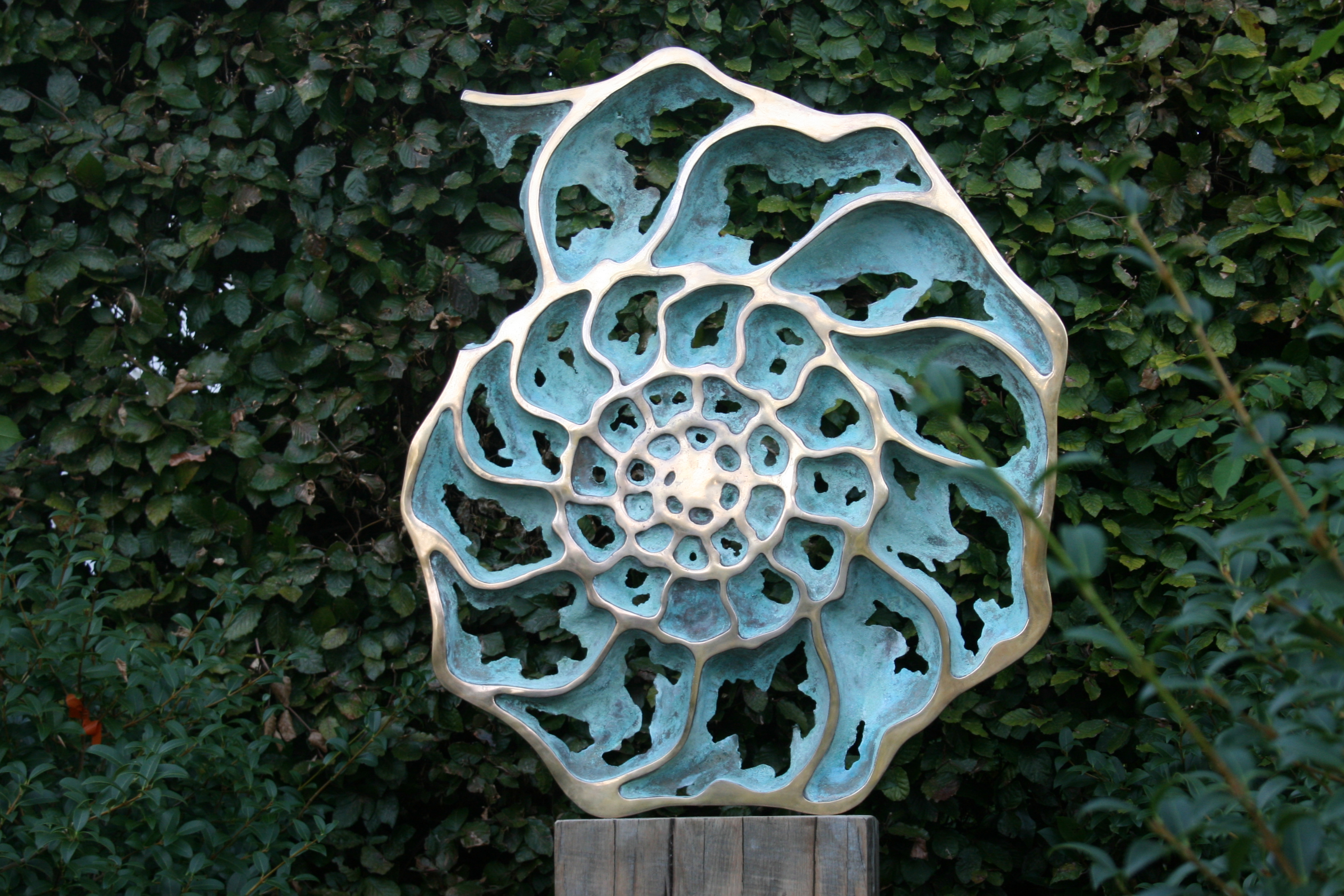 Ammonite sculpture in bronze by Mark Reed